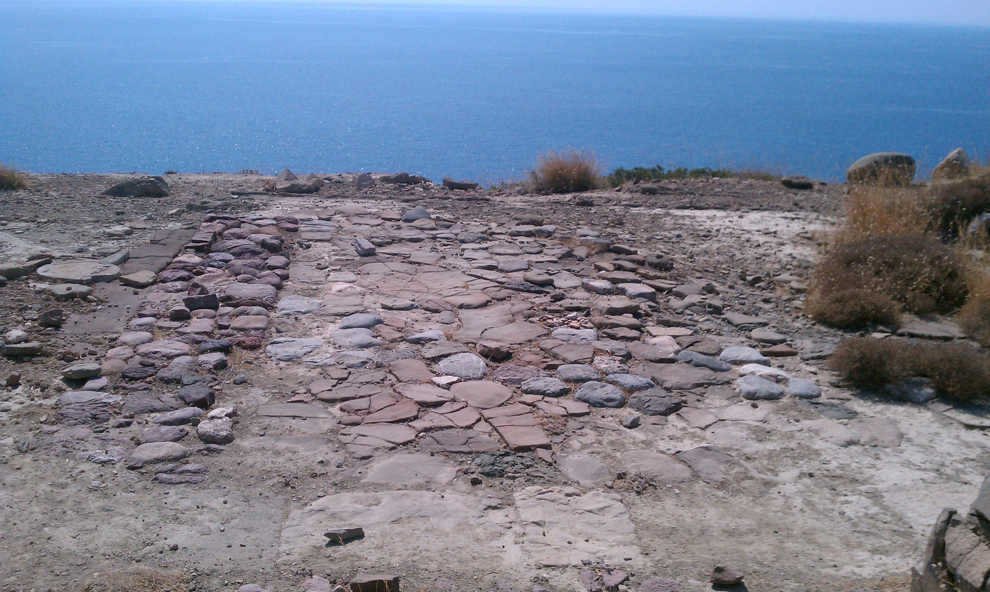 Paved floor at the Pyrgos Myrtos Minoan archaeological site.